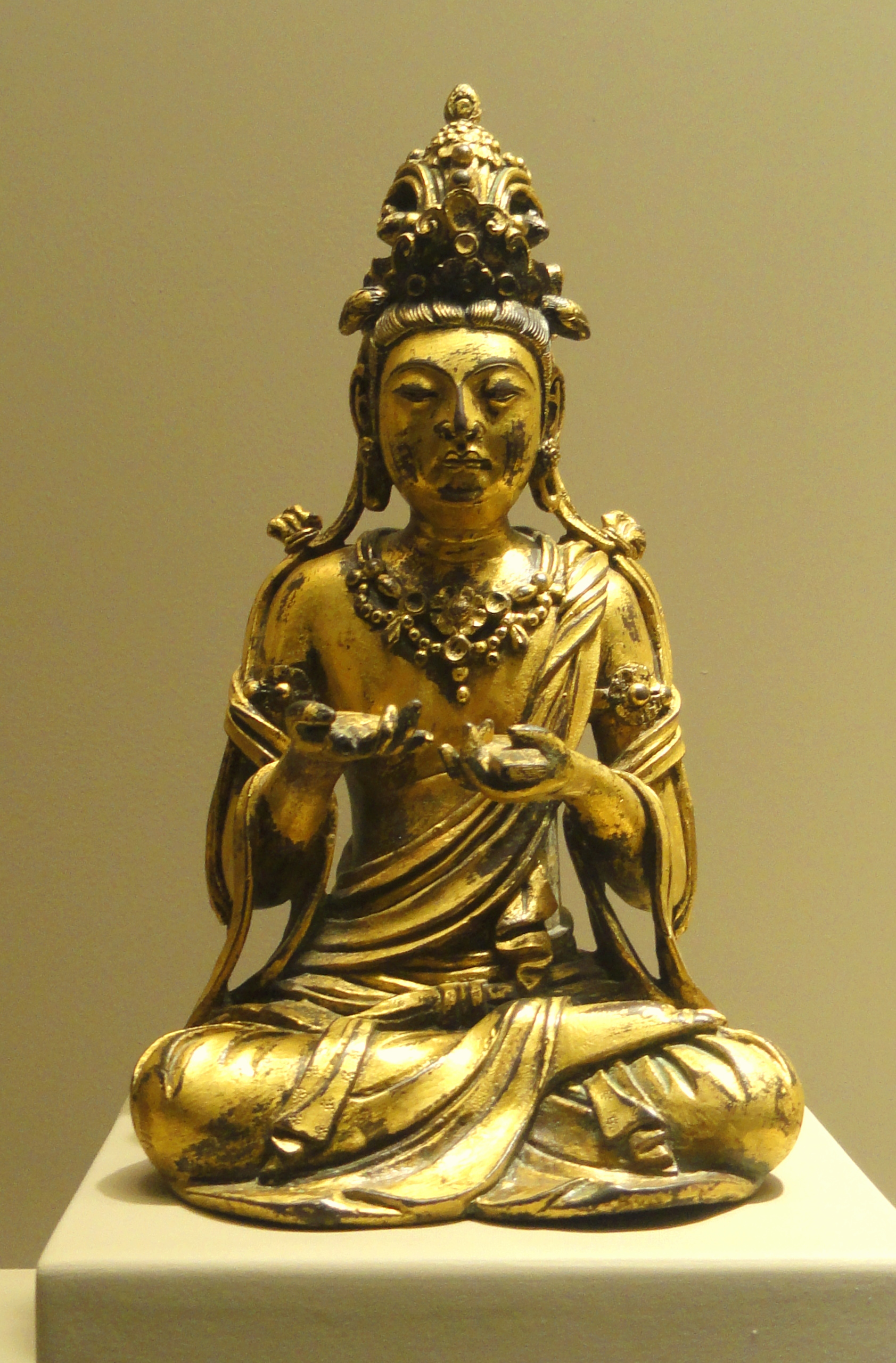 Exhibit in the Nelson-Atkins Museum of Art, Kansas City, Missouri. This artwork is old enough so that it is in the public domain, and the museum permitted photography without restriction. I took this photograph and release it into the public domain.